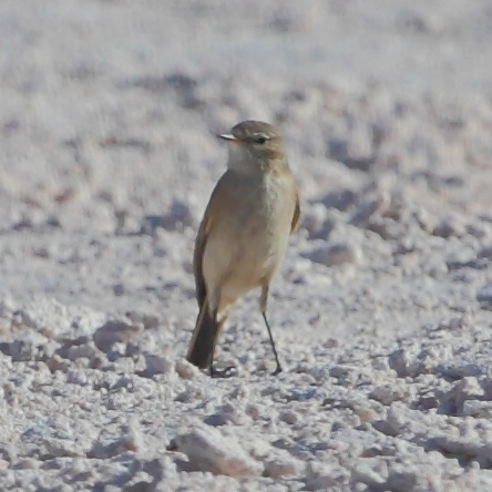 Ochre-naped Ground-Tyrant at San Pedro de Atacama, Chile